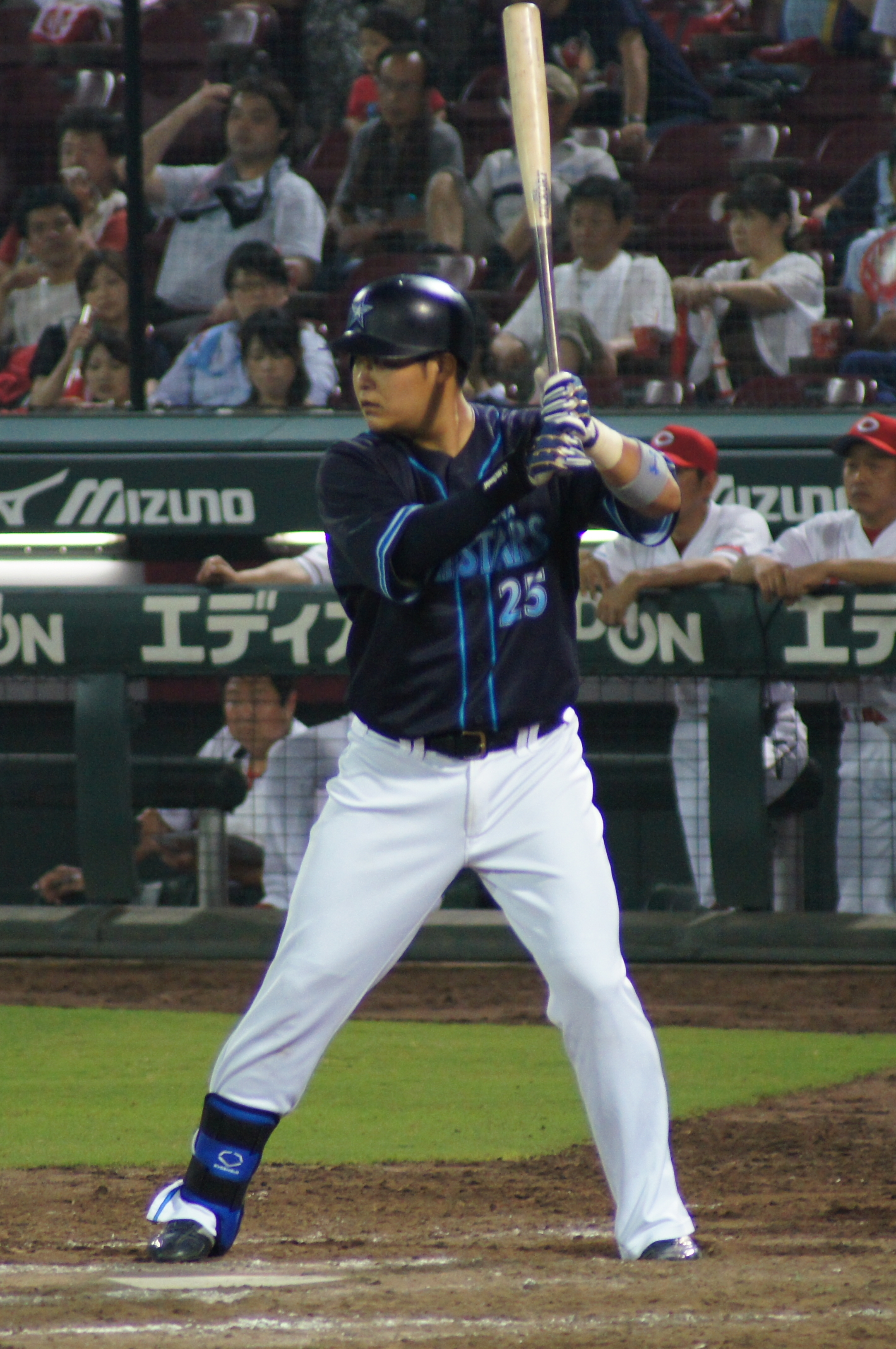 Yoshitomo Tsutsugo, infielder (pinch hitter on this match) for the Yokohama DeNA BayStars, at Mazda Zoom-Zoom Stadium Hiroshima